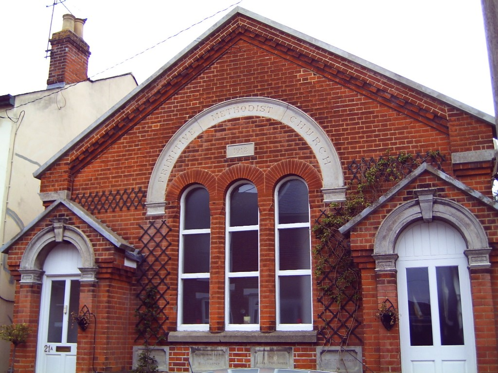 ehemalige Primitive Methodist Church in Rowhedge (Essex) - former Primitive Methodist Church in Rowhedge (Essex)